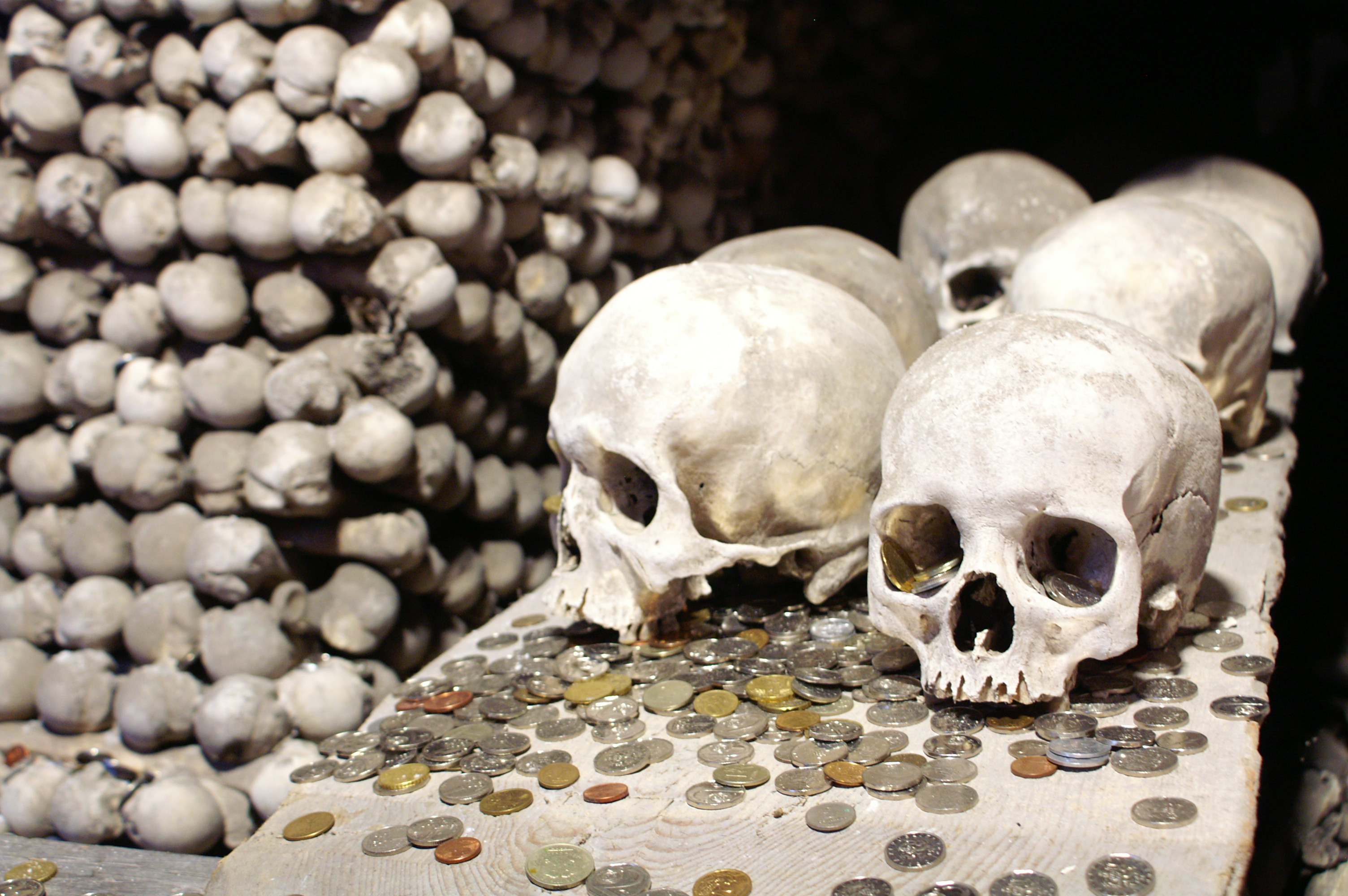 Picture taken inside the Sedlec Ossuary in Kutná Hora, Czech Republic